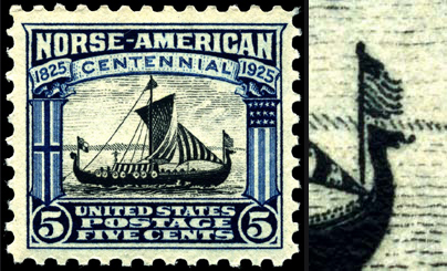 Postage stamp of the USA, viking ship of Norge settlers, 5 cents (fragment), 1925